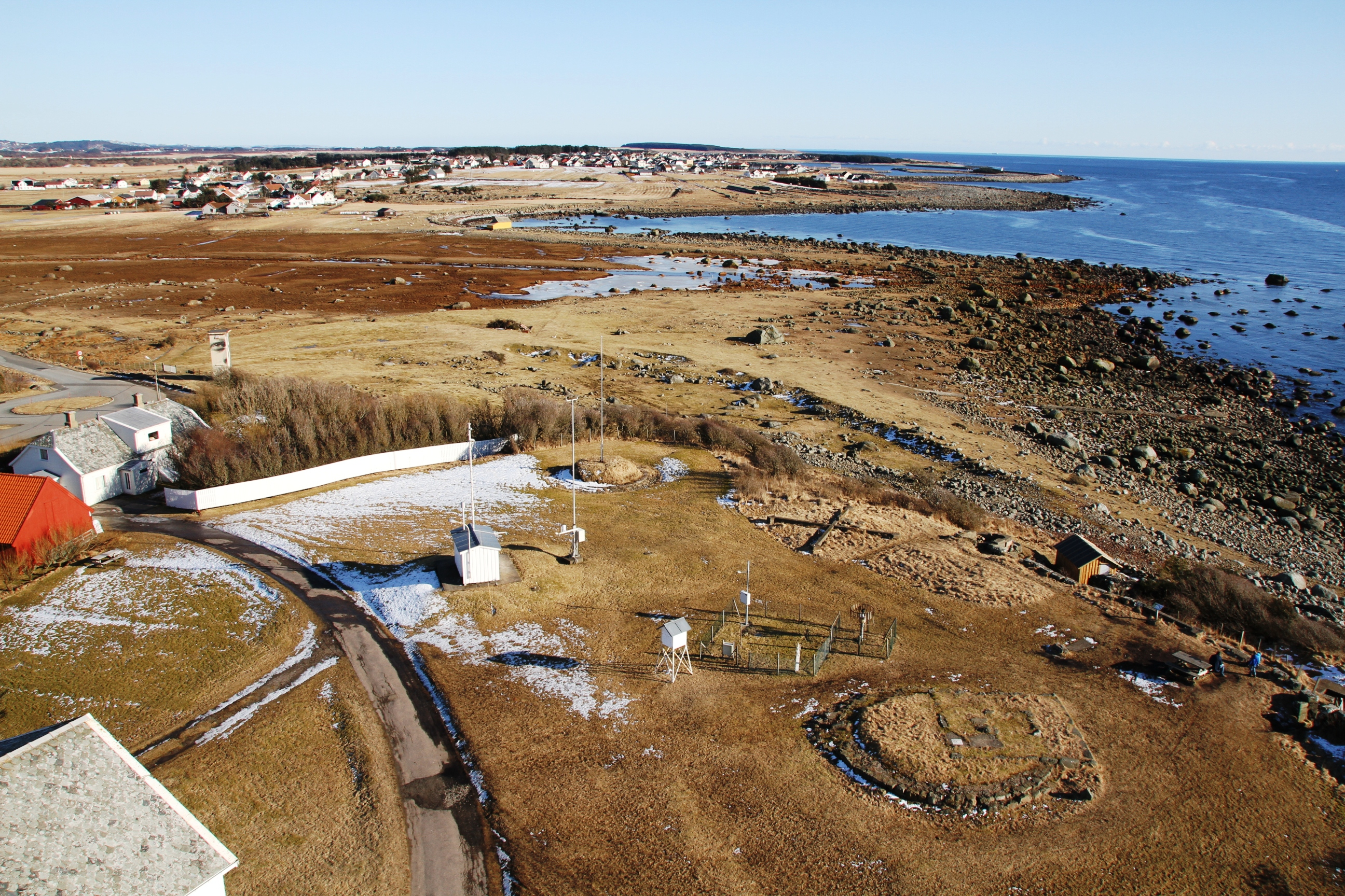 Image of motif from the western end of the Lista peninsula, Farsund municipality (Vest-Agder, Norway). The moraine out here is one of the few mainland parts of the rim called Ra (Raet), the main moraine of southern Norway stretching from Sweden to Lista, and made during the Younger Dryas cold periode (the glacier reemergence), c. 9.500 BC.